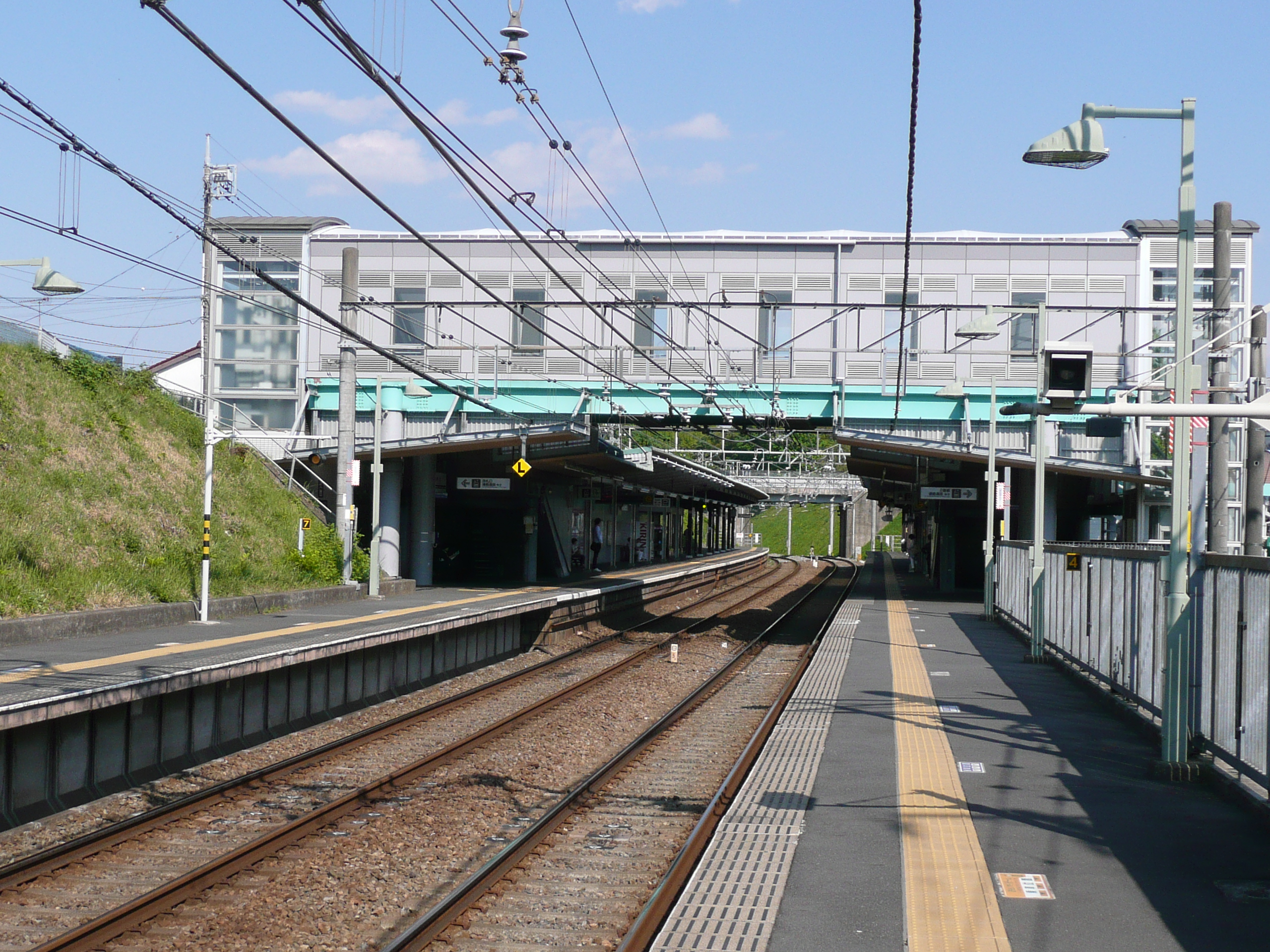 Platforms of Hazama Station (Tokyo)